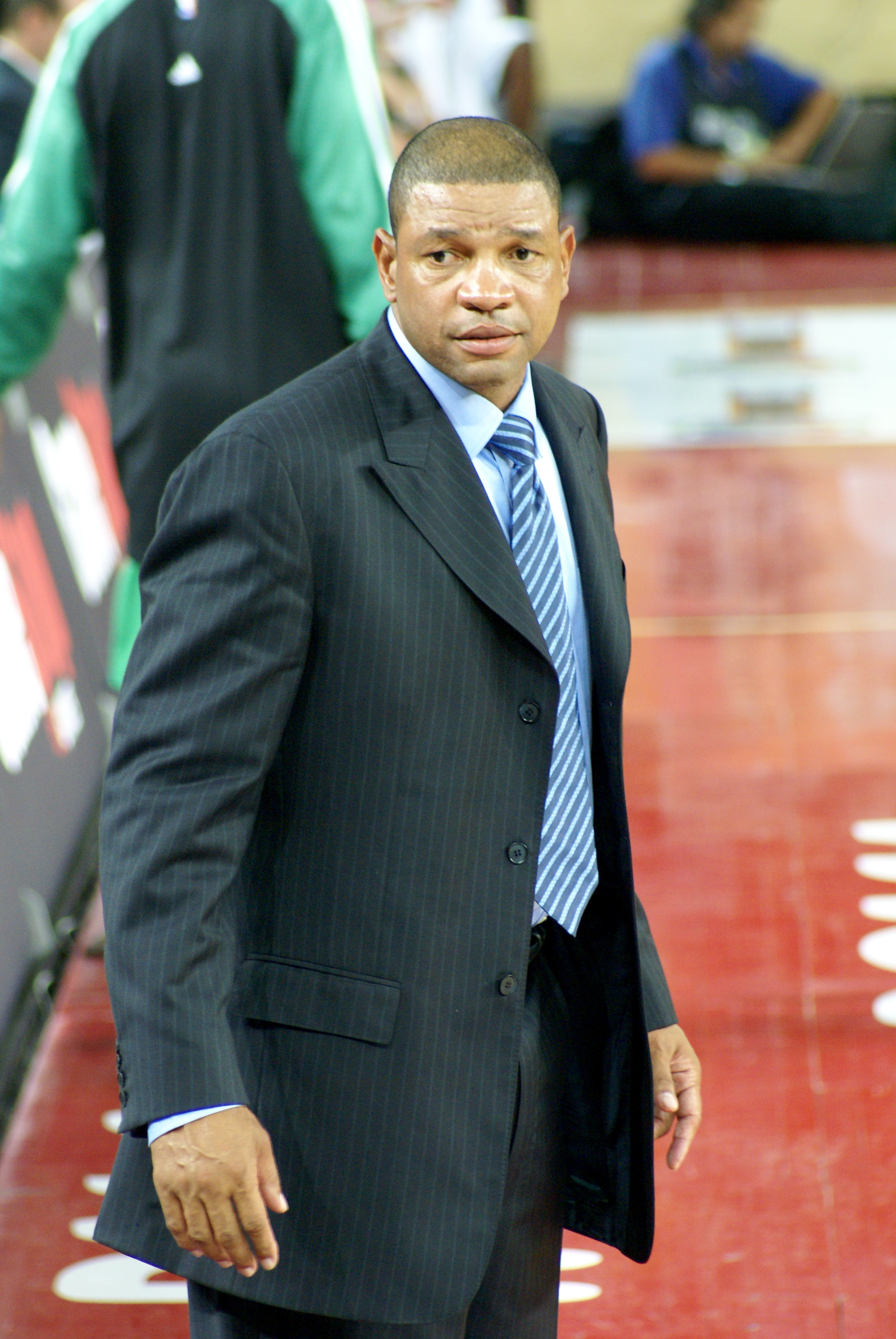 Doc Rivers